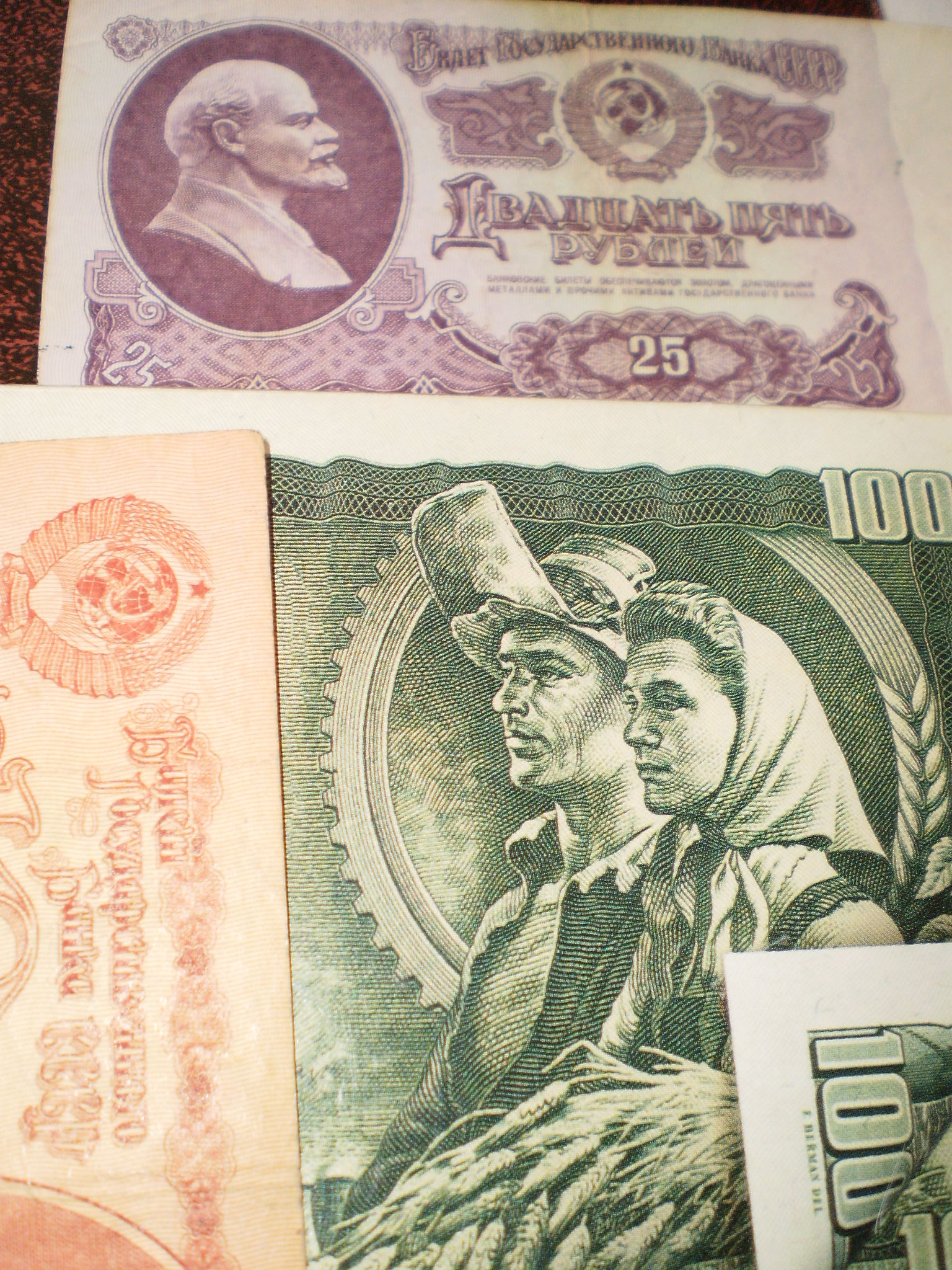 Symbolics on the banknotes of socialist state, there is worker an peaseant, over Lenin as the founer of socialist state